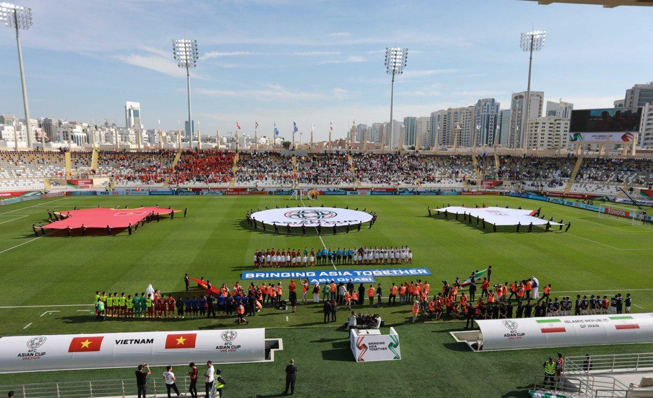 Iran & Vietnam Group D match, 2019 AFC Asian Cup